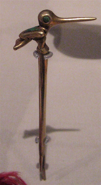 Peru, Inca Lime Spoon with Cast Picaflor, 1250-1470 Utilitarian object, Gold, malachite, 3 5/8 x 1 1/2 in. (9.21 x 3.81 cm) Purchased with funds provided by Lillian Apodaca Weiner (M.2003.77) Wikipedia Loves Art at the Los Angeles County Museum of Art This photo of item # M.2003.77 at the Los Angeles County Museum of Art was contributed under the team name "artifacts" as part of the Wikipedia Loves Art project in February 2009. Los Angeles County Museum of Art The original photograph on Flickr was taken by joel.parham—please add a comment to the original Flickr page whenever a use has been made on Wikipedia or another project. Project galleries on Flickr: this institution, this team